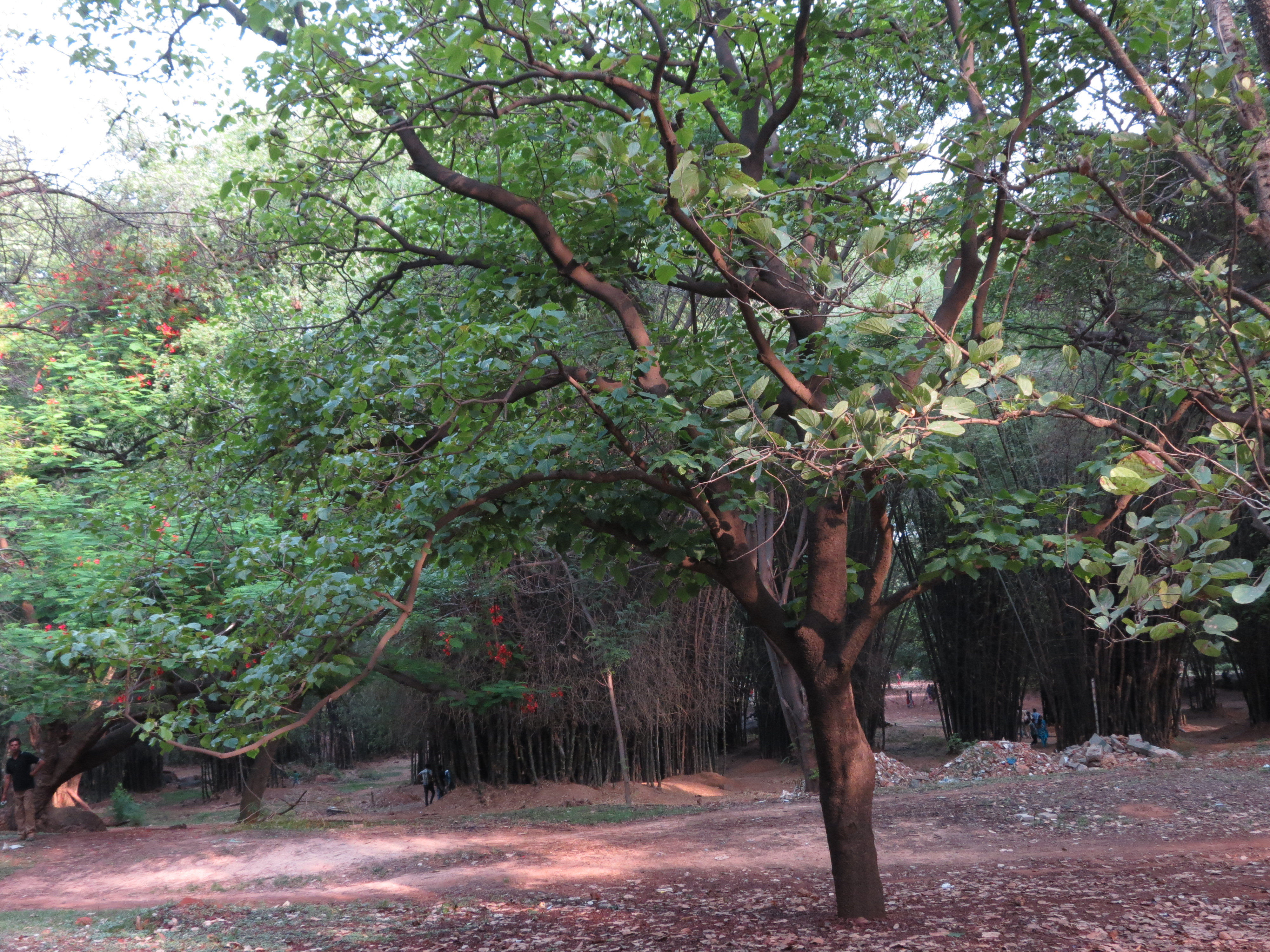 Reutealis trisperma also known as Philippine tung tree seen in Cubbon park Bangalore.